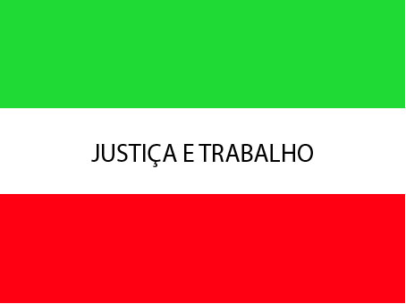 Flag of Tanque Novo, brazilian municipality of Bahia